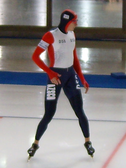 Jevgenij Lalenkov (RUS) befor 1000 meters world cup speedskating race in Berlin, Germany.